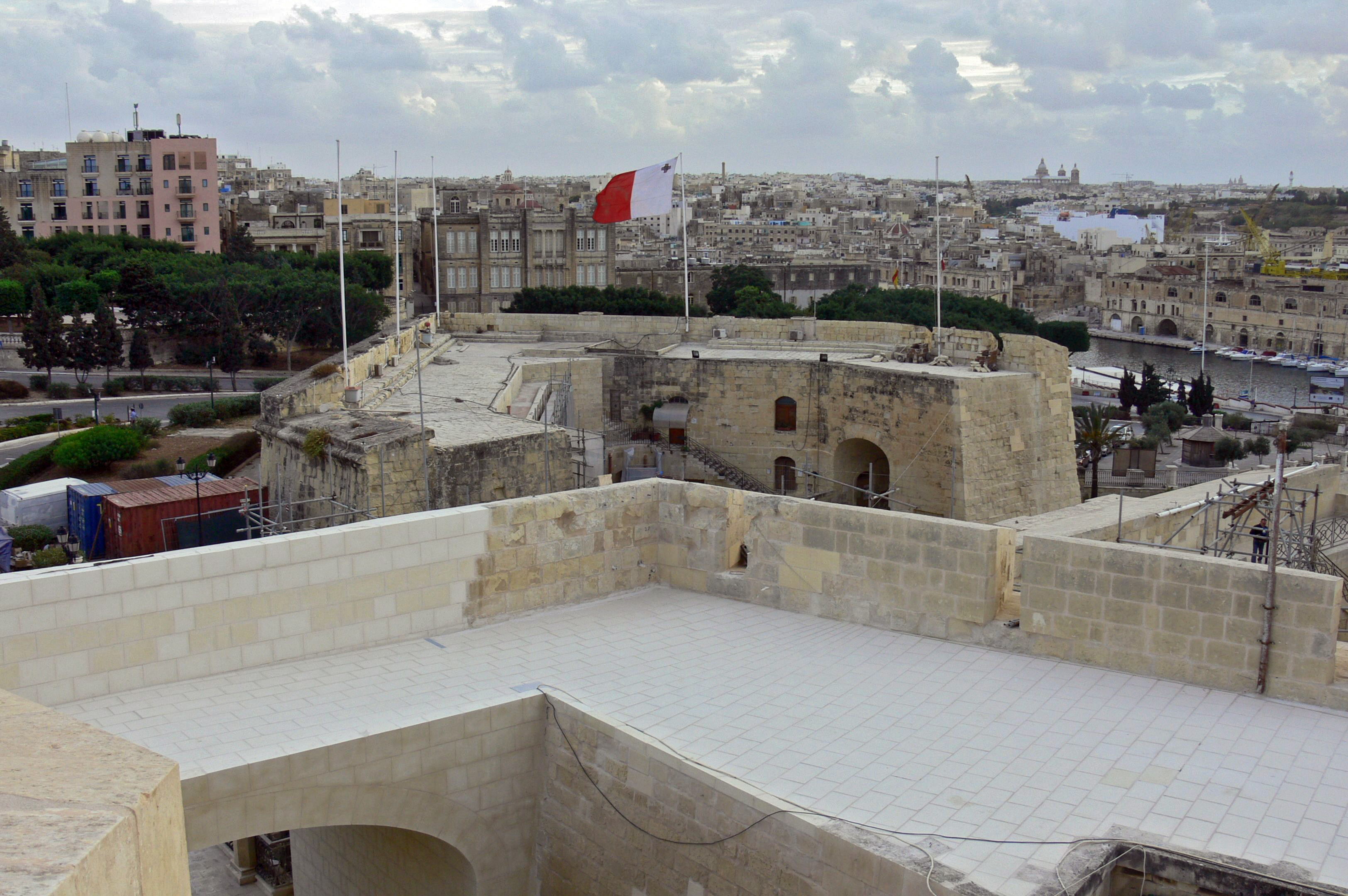 The Couvre Porte of Il-Birgu (Citta Vittoriosa) from St. John bastion